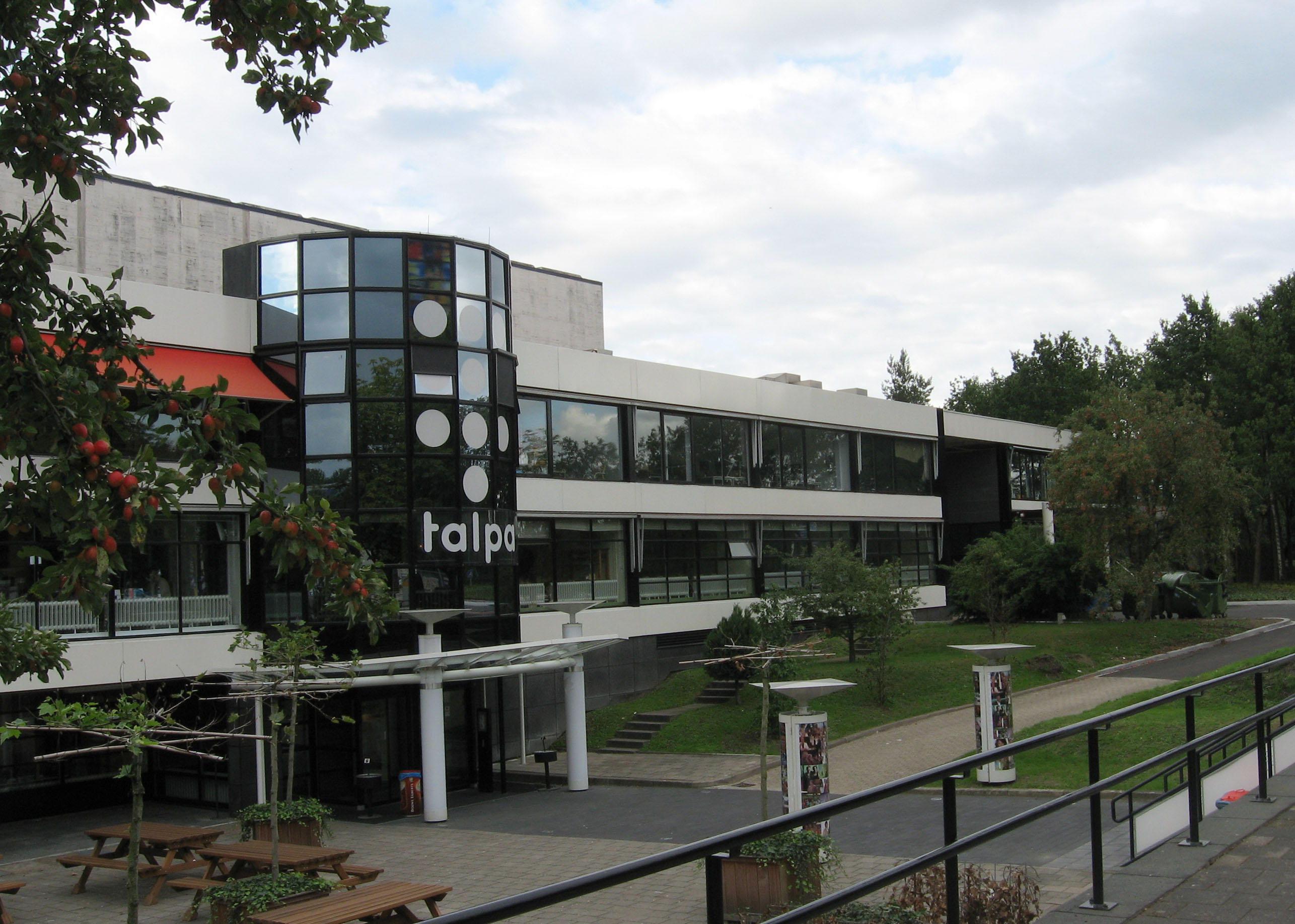 Building of the Dutch broadcasting company 'Talpa' at the Media park in Hilversum, The Netherlands.